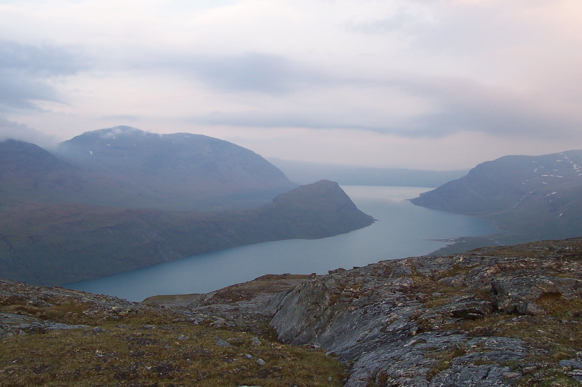 Iggesjávrre in the Swedish mountains, seen from the east